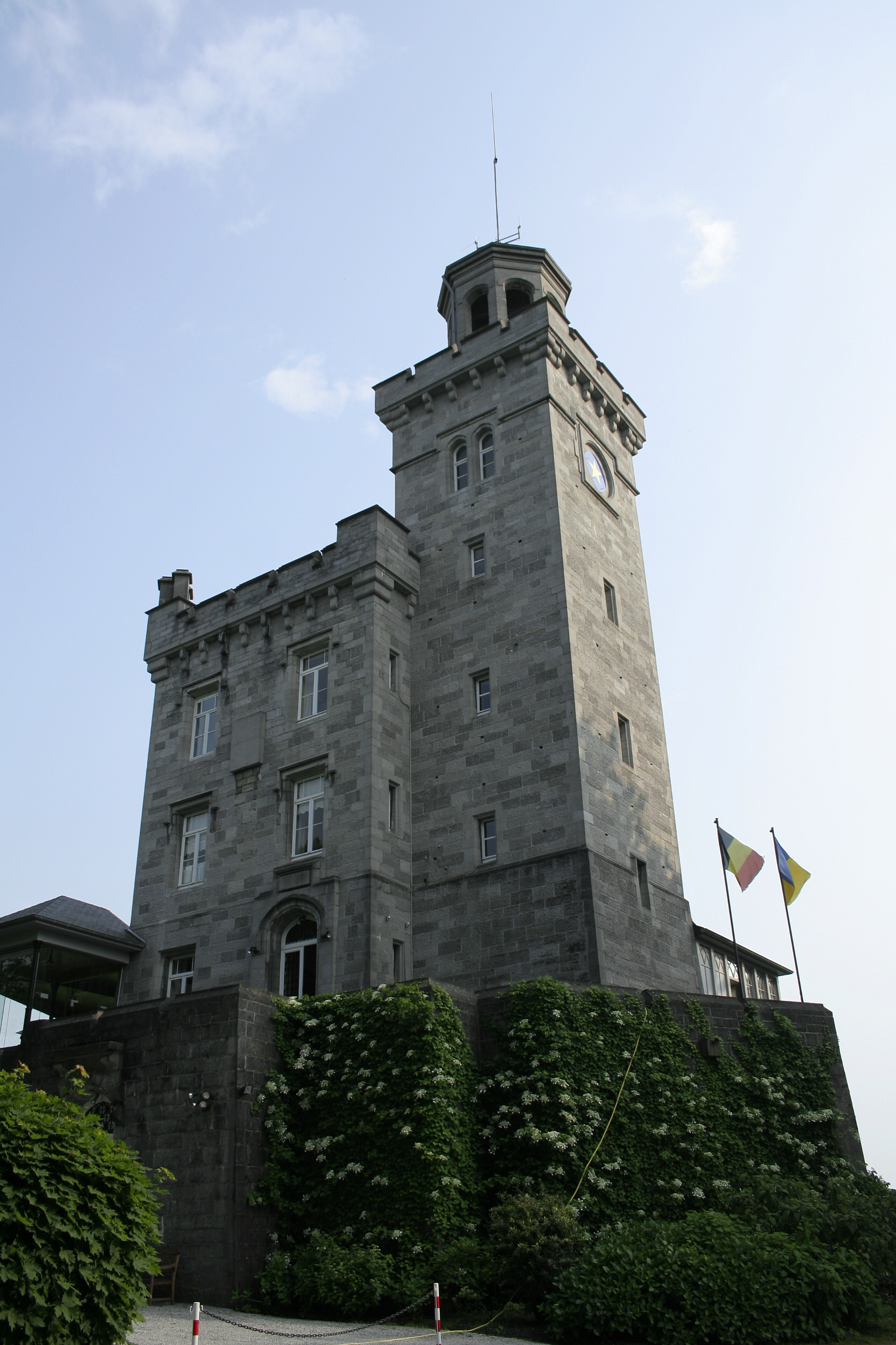 Houyet (Belgium), Tour Léopold - Park of the "Domaine d'Ardenne" (1878).